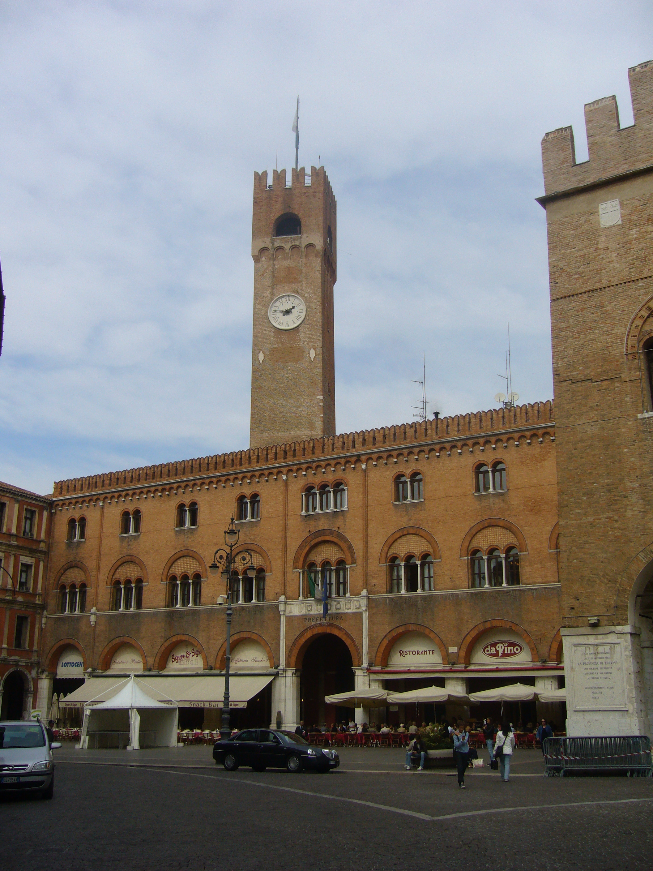 Piazza dei Signori in Treviso, Italy